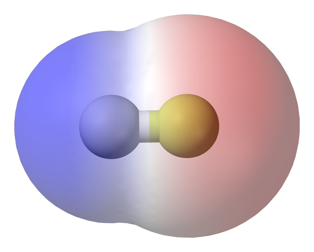 A van der Waals' surface coloured according to charge, superimposed on a ball-and-stick model of the hydrogen fluoride molecule, HF. Red represents partially negatively charged regions, blue represents partially positively charged regions, and white represents neutral (uncharged) regions. Created in Accelrys DS Visualizer 1.5, edited with Photoshop Elements 3.0.